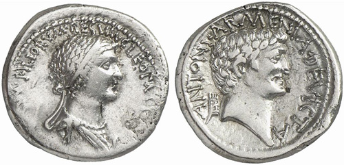 Mark Antony and Cleopatra. Silver Denarius, 32 BC (3.45 g, 12 mm). Obverse: CLEOPATRA[E REGINAE REGVM]FILIORVM REGVM Diademed and draped bust of Cleopatra to right Reverse: Rev. ANTONI ARMENIA DEVICTA Head of M. Antony to right; behind. Babelon (Antonia) 95. Crawford 543/2. CRI 345. Sydenham 1210.